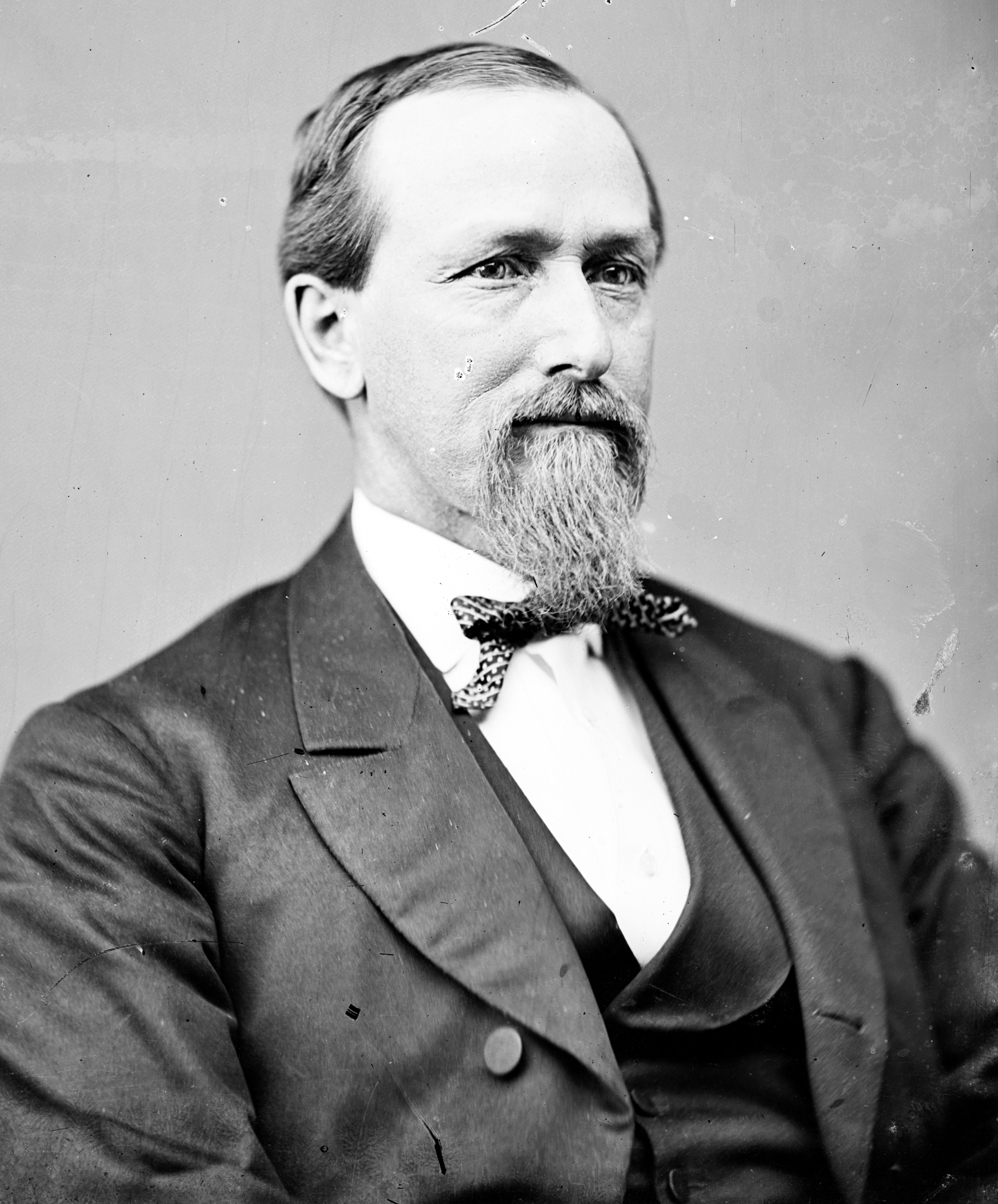 William Hepburn Armstrong, US Representative from Pennsylvania